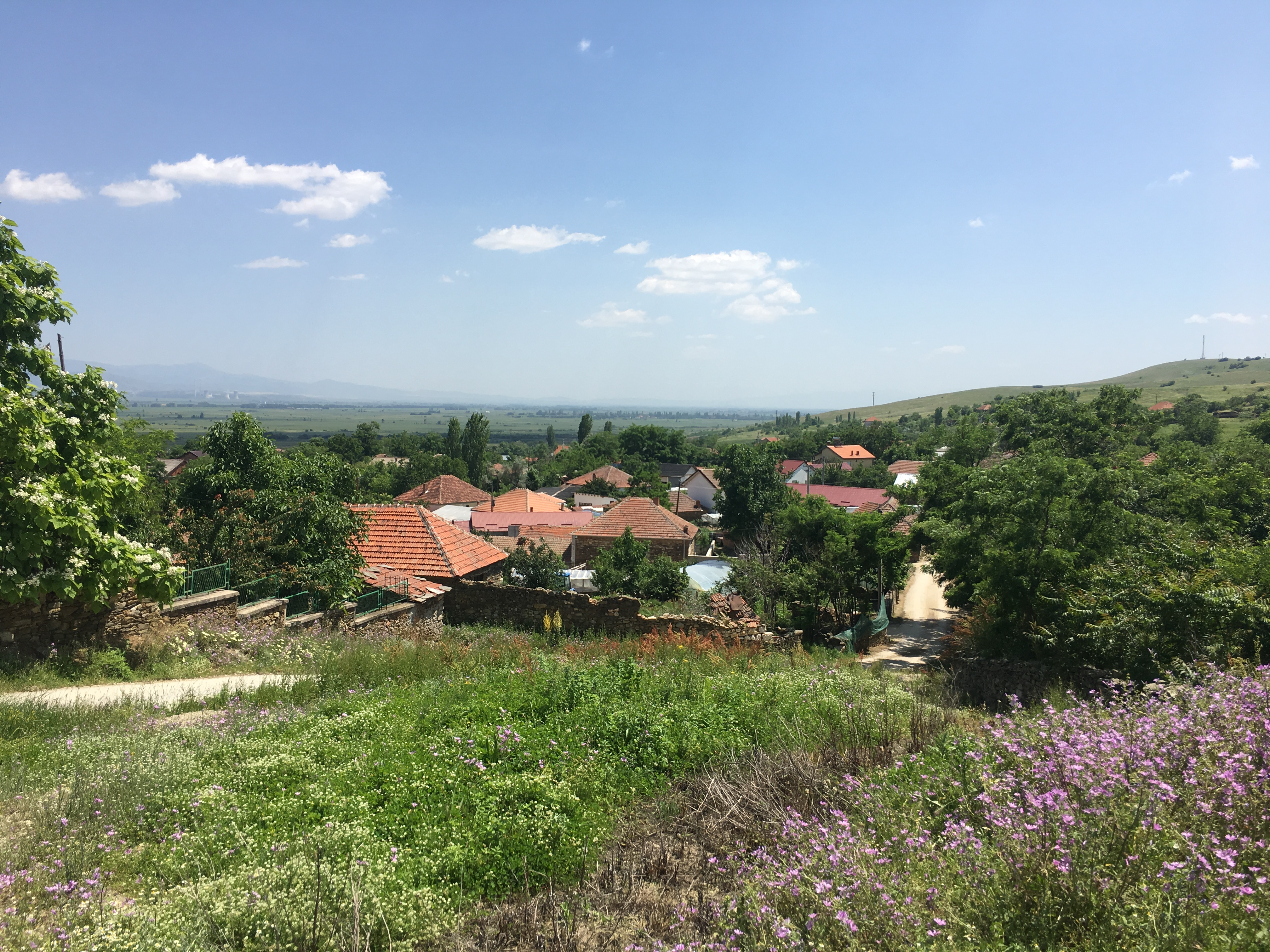 A view of the village of Beranci